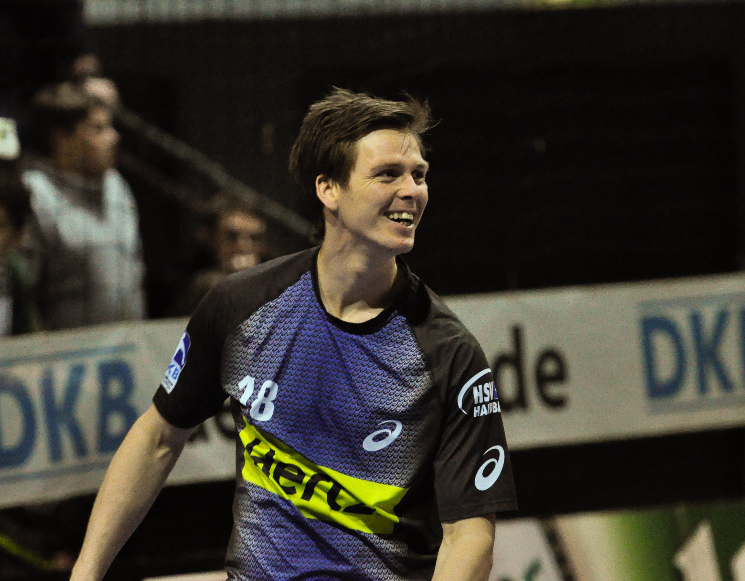 taken on February 8, 2014 during DKB Handball-Bundesliga match between HSG Wetzlar and HSV Hamburg